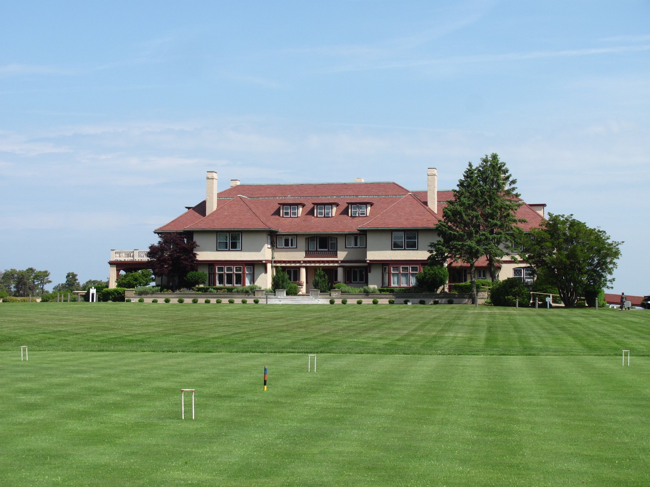 Nickerson Mansion, East Brewster Massachusetts